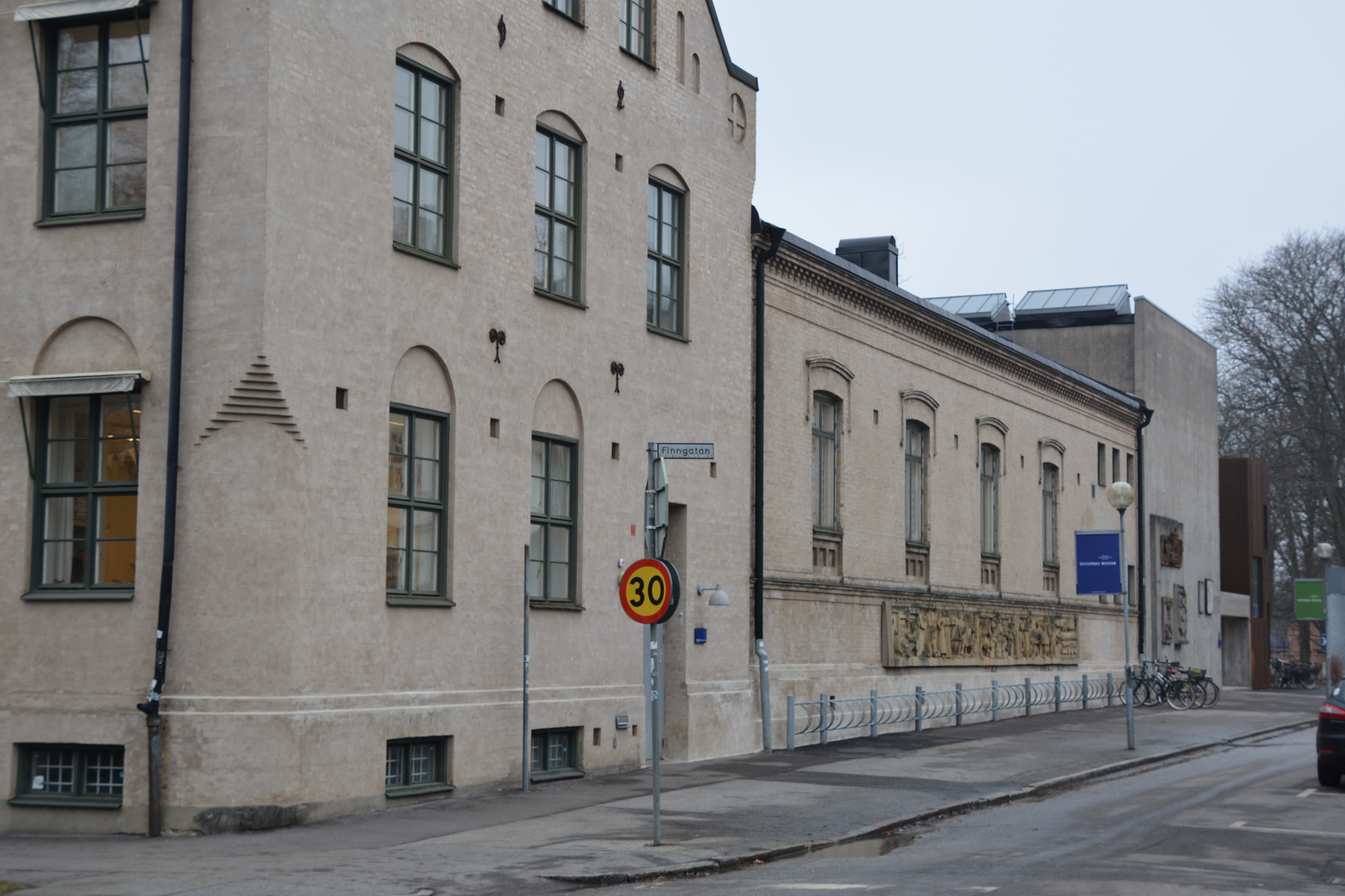 Skissernas museum. Fasaderna mot Finngatan